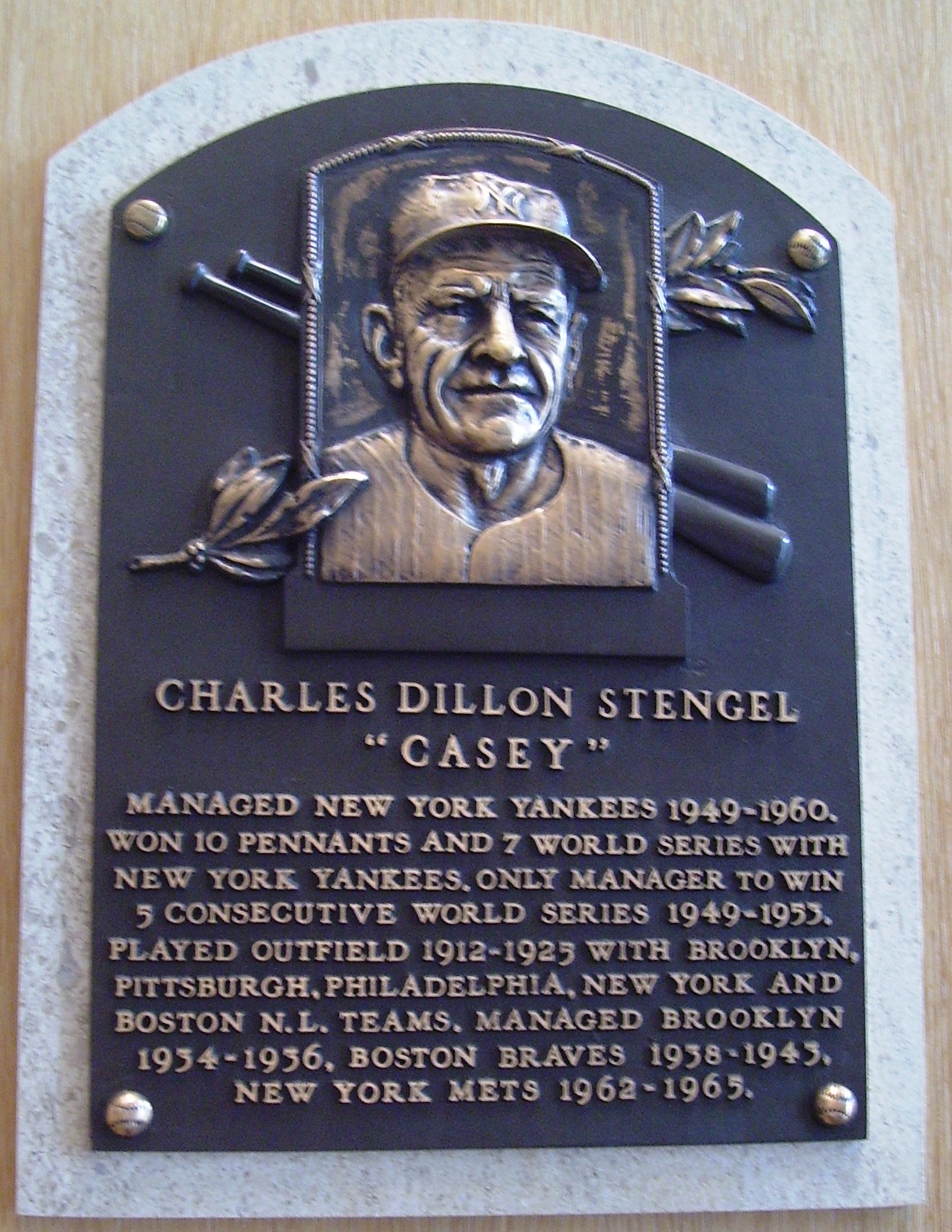 Casey Stengel's Baseball Hall of Fame Plaque. Taken by me. --(Review Me) R ParlateContribs@ (Let's Go Yankees!) 18:45, 22 July 2007 (UTC) 18:45, 22 July 2007 . . R . . 1,573×2,076 (1.04 MB)